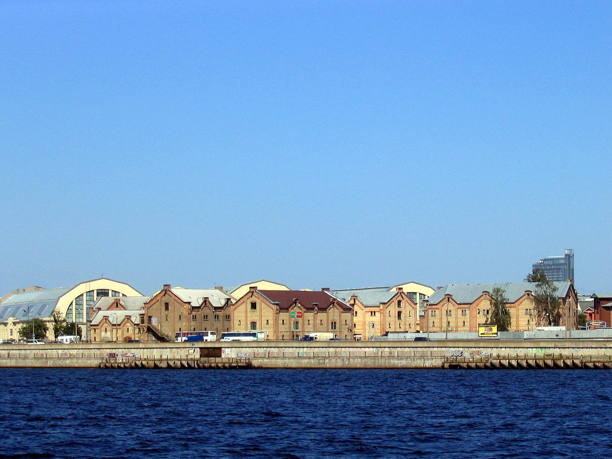 Market and warehouses in Riga